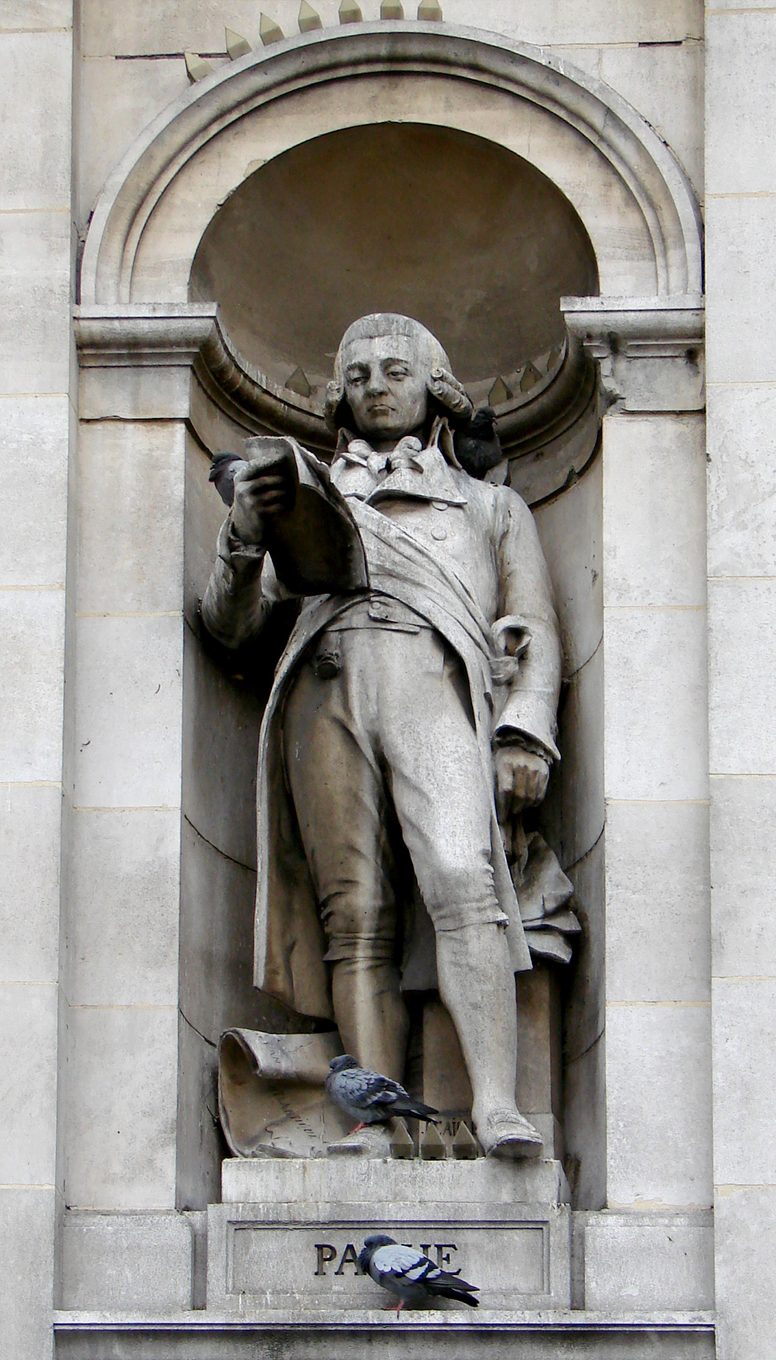 Statue of Jean-Nicolas Pache (1746 - 1823) in the Town Hall of Paris. He was mayor of Paris.